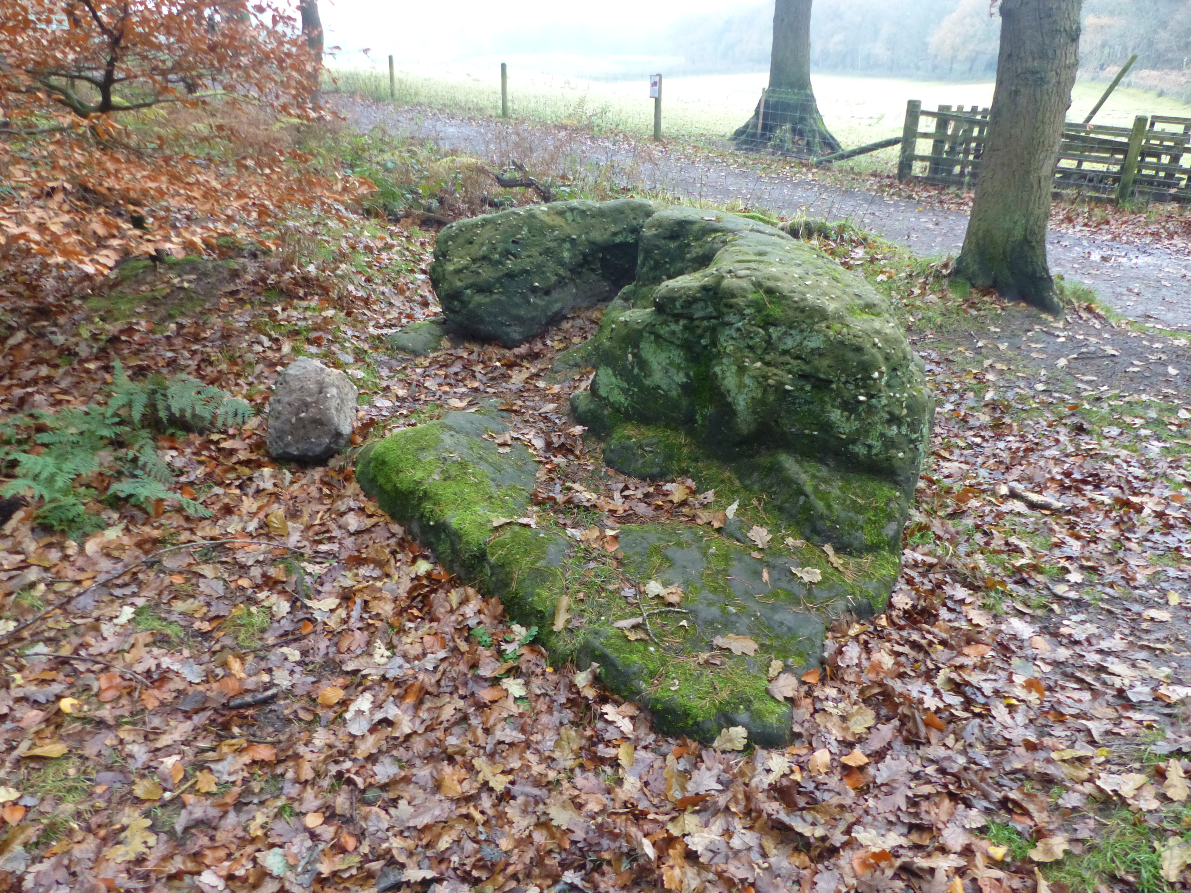 Scheduled monument at Alderley Edge, Cheshire. A "merestone", or boundary stone, marking the medieval boundary between Over Alderley and Nether Alderley parishes.